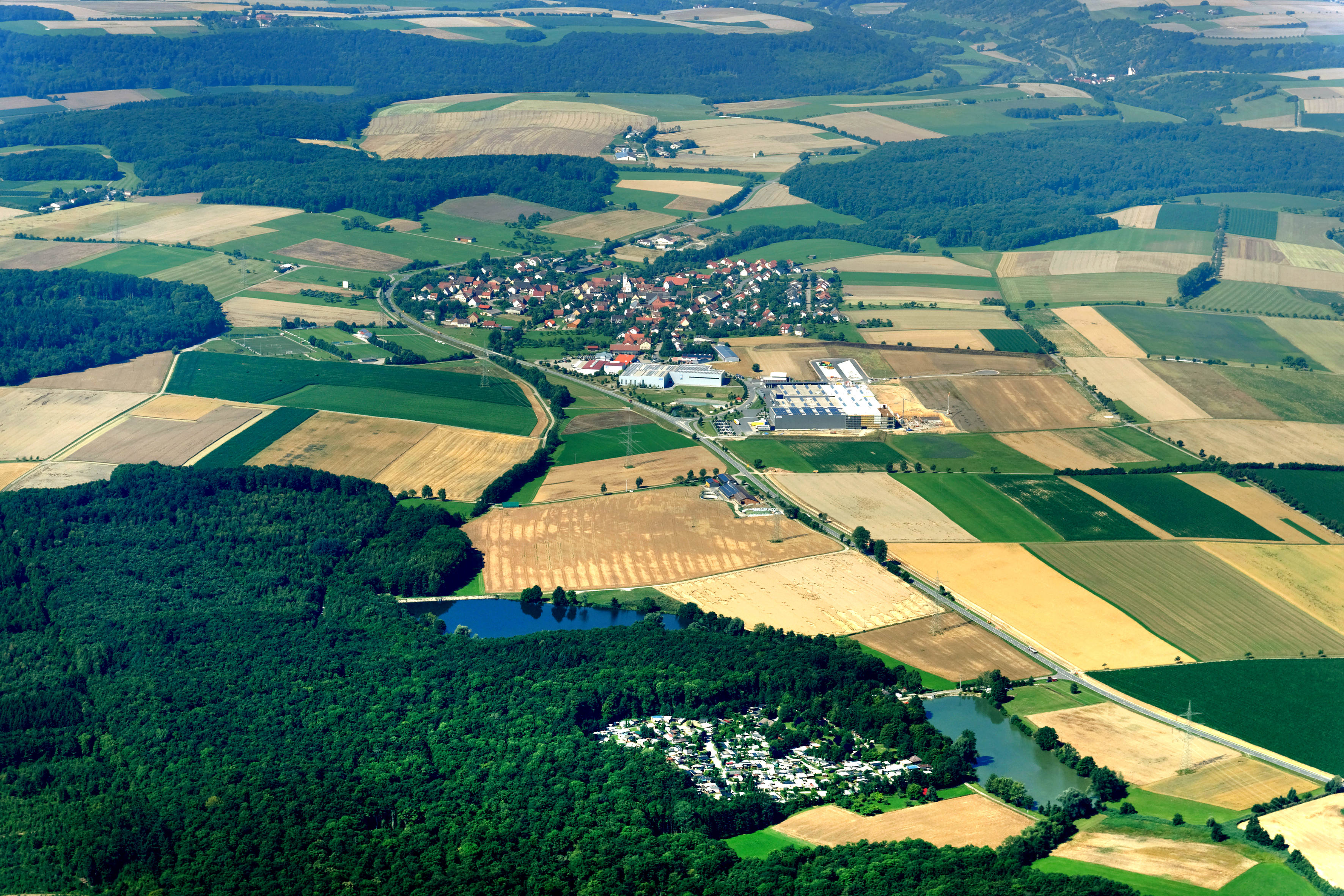 Popular campsite on the Lake Hollenbach.